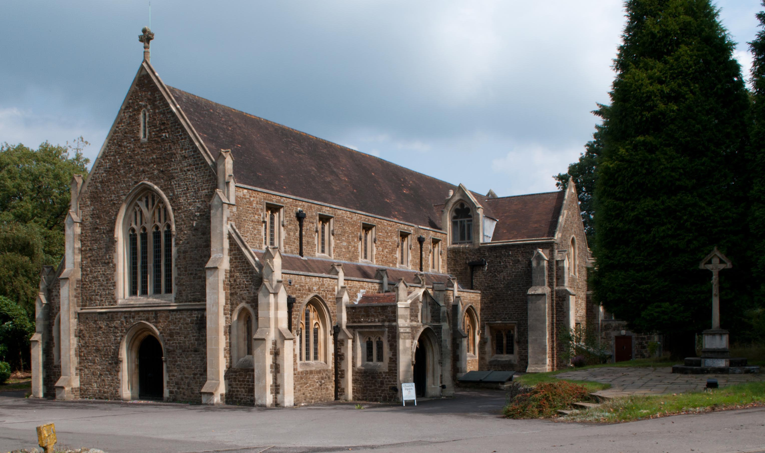 St. Alban's church, Beacon Hill, Surrey. 2014